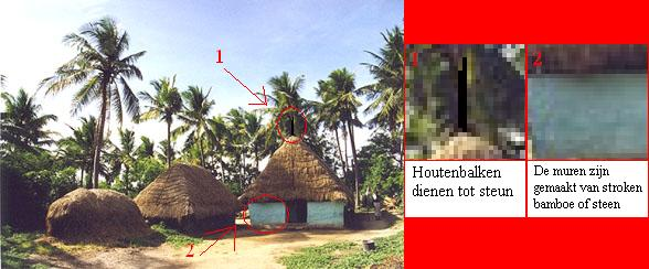 Tribal houses in India with features described in Dutch.